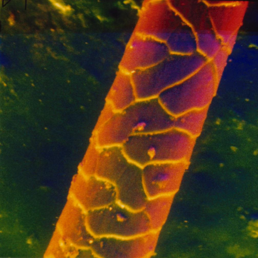 ESEM BSE image of uncoated cat hair at 10 kV, 1000x, 680 Pa of water vapour and room temperature.